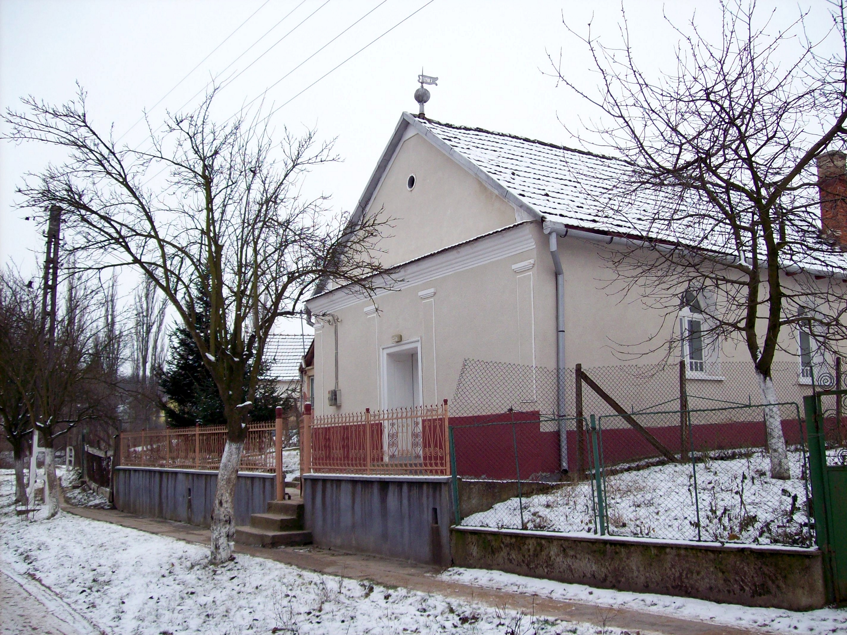 Baptist church of Târguşor, Bihor County